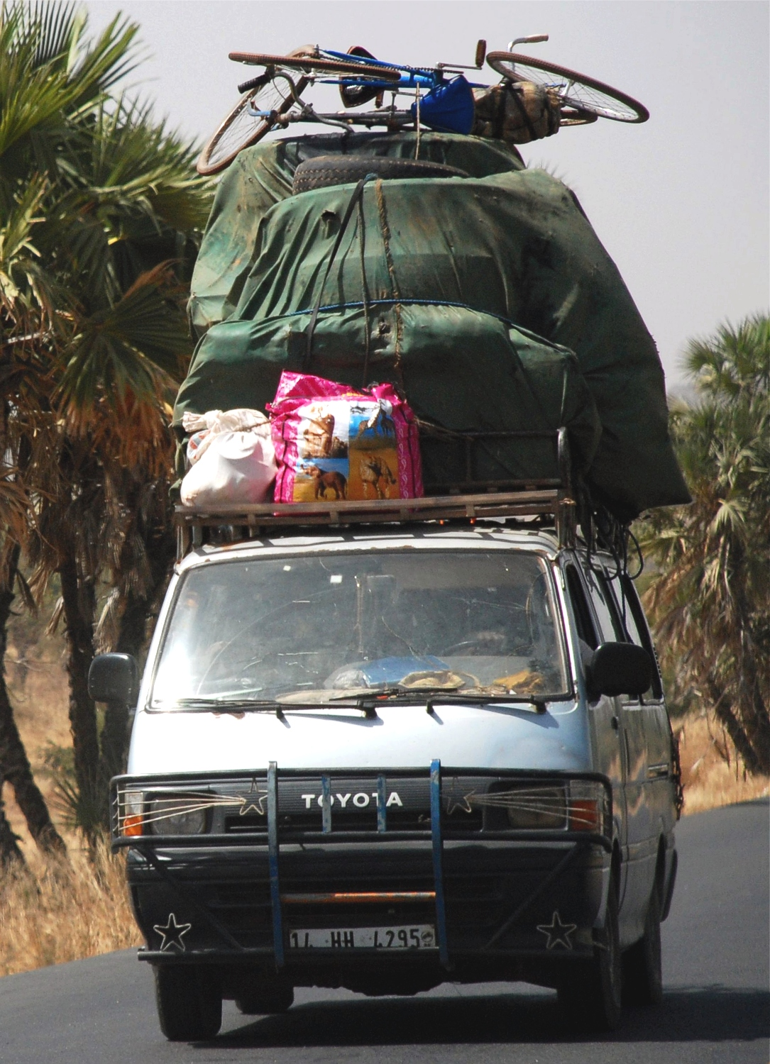 Bushtaxi in Burkina Faso, West Africa